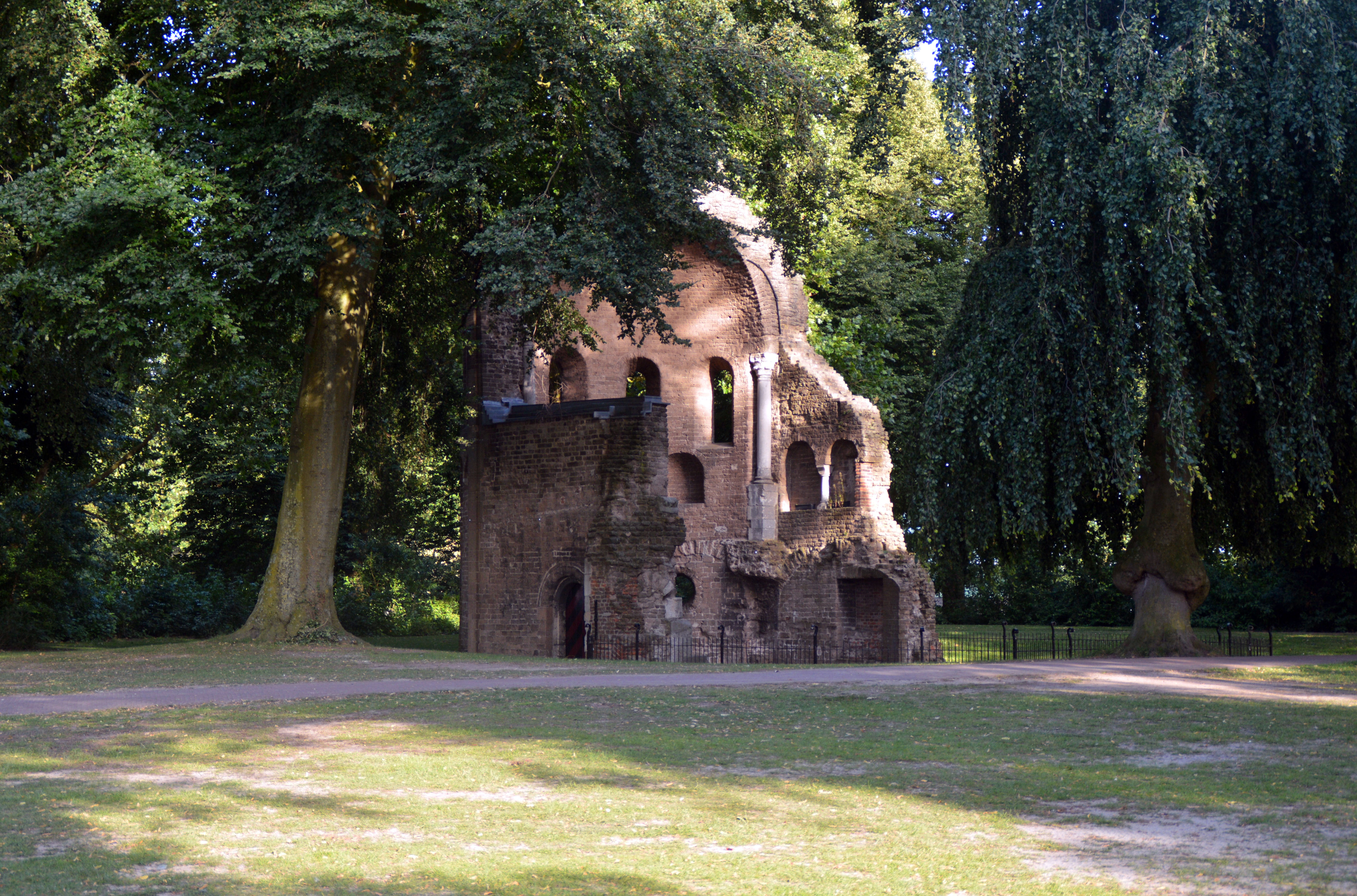 Barbarossa-ruïne, Valkhof park, Nijmegen